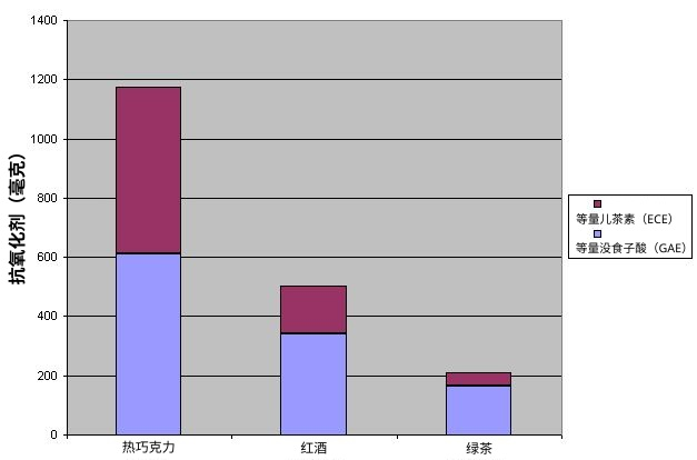 Antioxidants in hot chocolate compared with that in red wine and green tea.